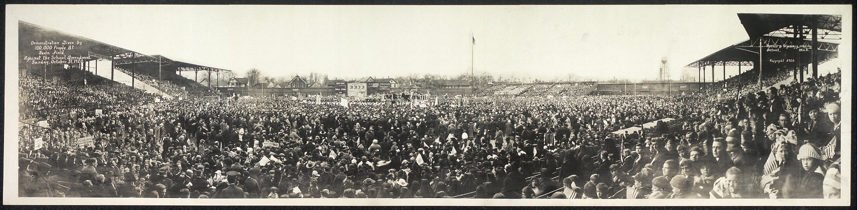 A demonstration against a school amendment at Navin Field in Detroit, Michigan.